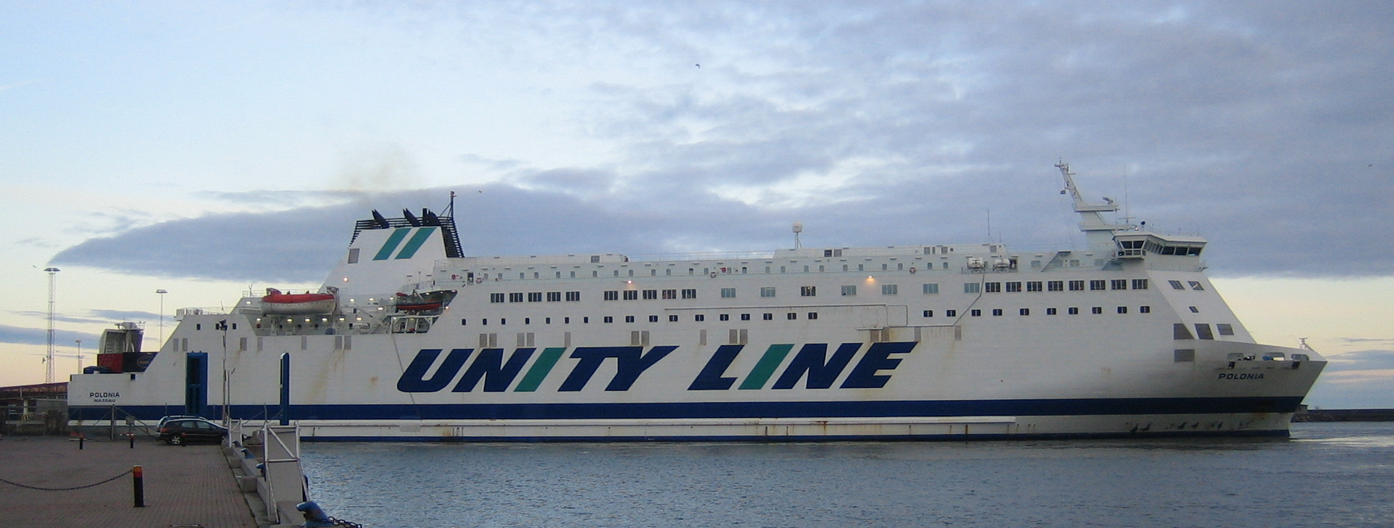 MS Polonia in Ystad harbour IMO Number: 9108350 MMSI Number: 309272000 Callsign: C6NC7 Length: 170 m Beam: 28 m